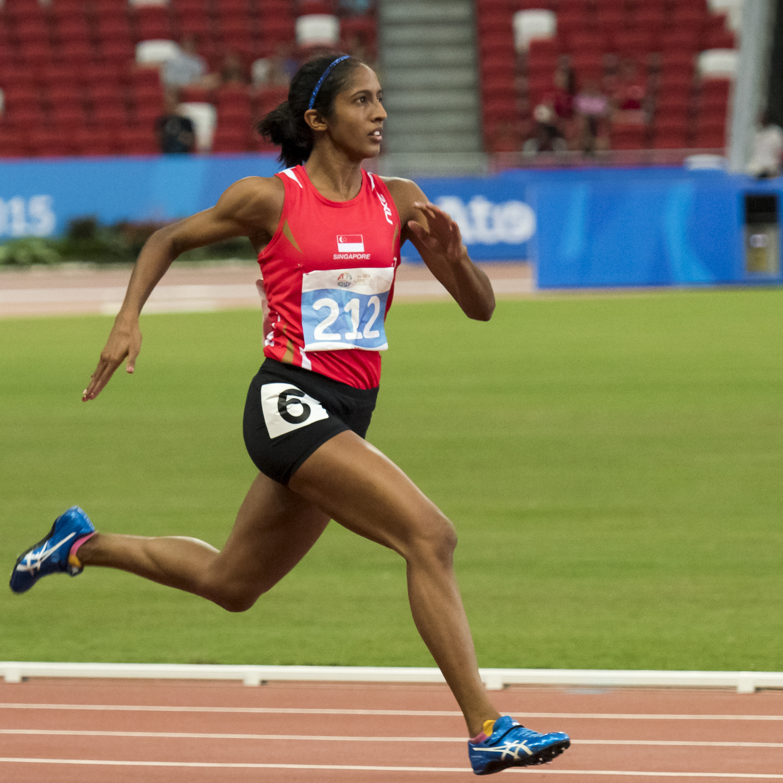 shanti pereira 2015 sea games 200m heats record